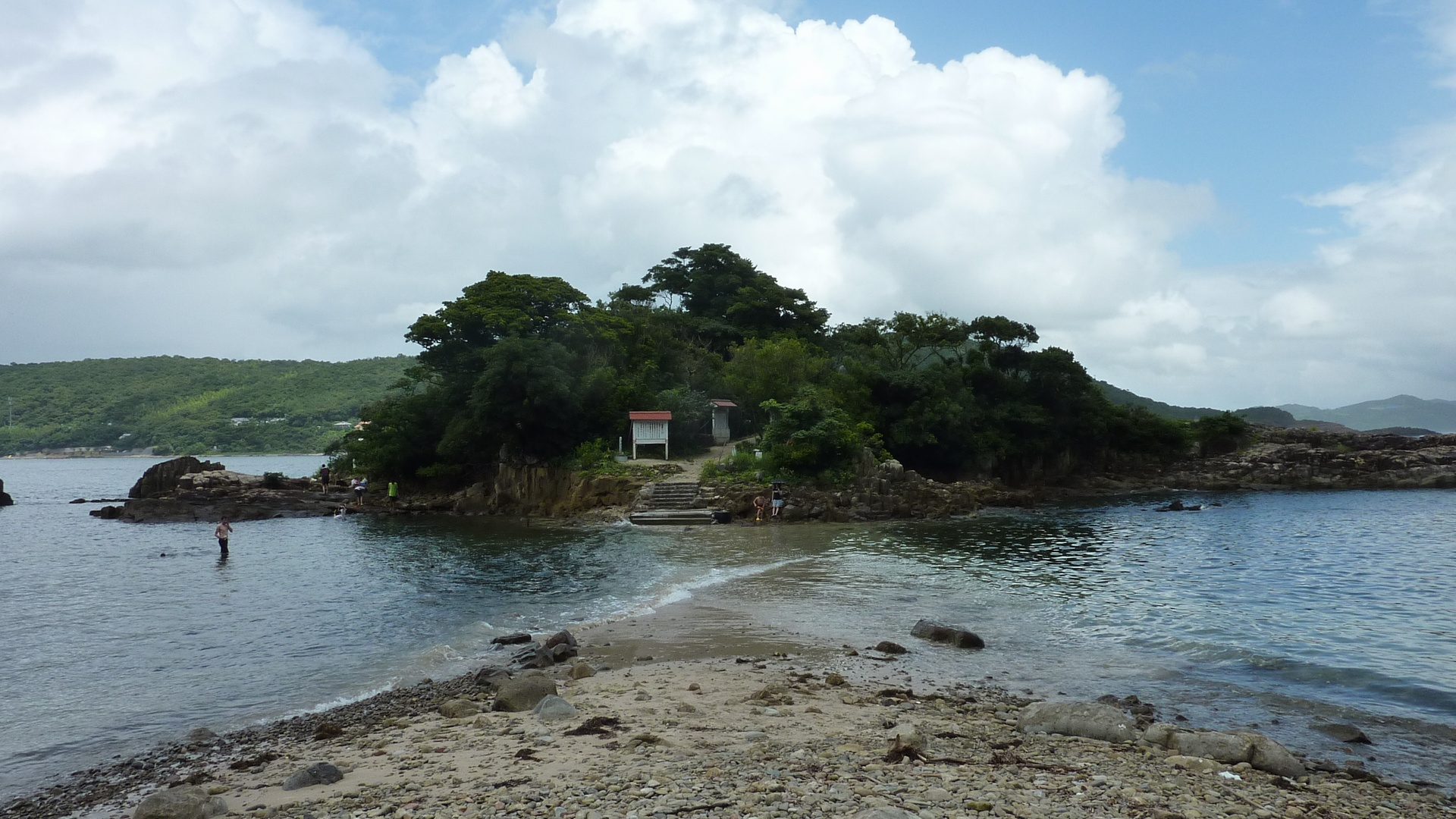 The Kuroda no Kashin is in Hyuga City, Miyazaki Prefecture, Japan.